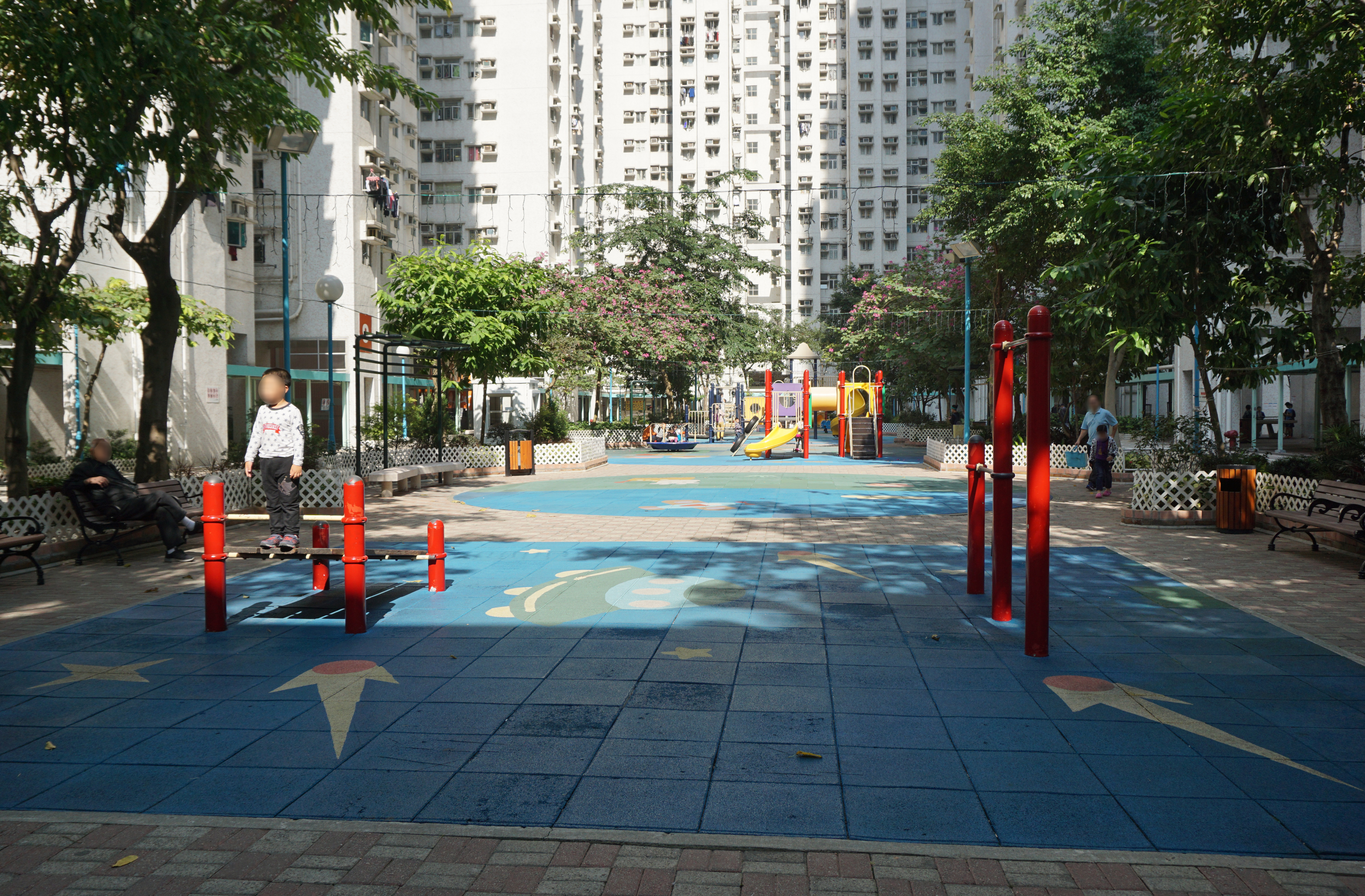 Lung Mun Oasis in Tuen Mun, Hong Kong.